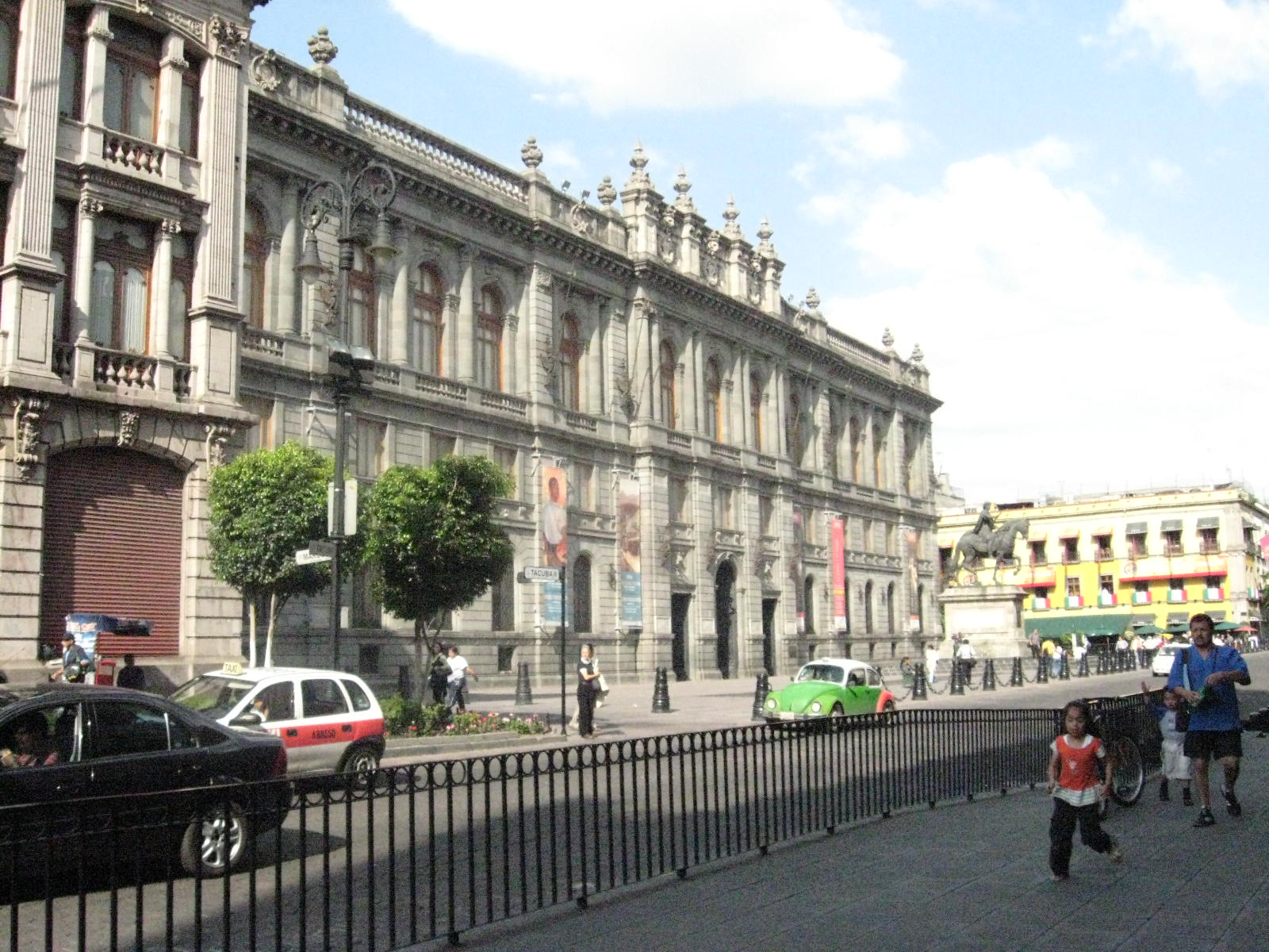 Museum Nacional de Arte located on Tacuba street near Eje Central in the historic center of Mexico City.